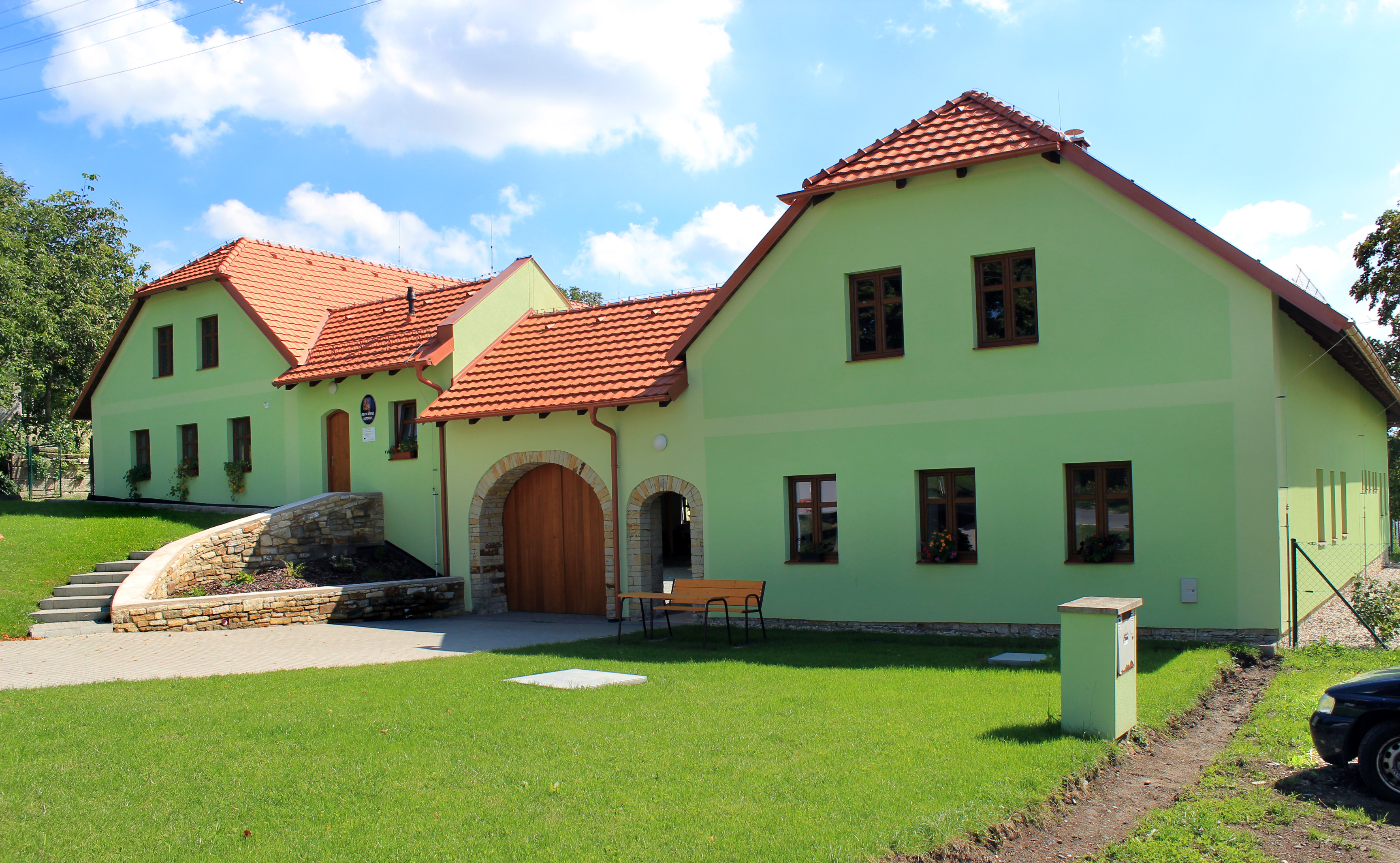 Municipal office in Chotovice, Czech Republic.